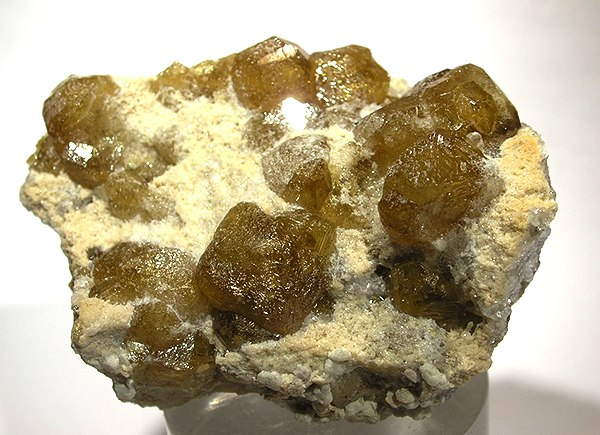 Microlite, Lepidolite Locality: Urubu mine (Vulture mine; Uruba mine), Monte Belo, Itinga, Jequitinhonha valley, Minas Gerais, Southeast Region, Brazil (Locality at ) The pictures do not do justice to these shimmering, lustrous, gemmy crystals (to 1.25 cm), perched on contrasting matrix. They have a golden color and internal shimmer that is simply amazing for the species and the locality. I have never seen the like. Neither had Luis Menezes, from whom I bought the best two specimens he had for sale from a very small lot obtained some months ago in Brazil. 6 x 4 x 3.25 cm